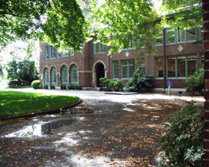 Saint Nicholas School, Seattle, WA. A non-sectarian private school for girls (grades 1-12), SNS merged with all-boys Lakeside School in the 1970s. The historic building is located next door to Saint Mark's Episcopal Cathedral, Capitol Hill, Seattle, Washington, USA. The building subsequently housed a large part of the Cornish College of the Arts, and is now home to the Gage Academy of Art and the Bright Water School.